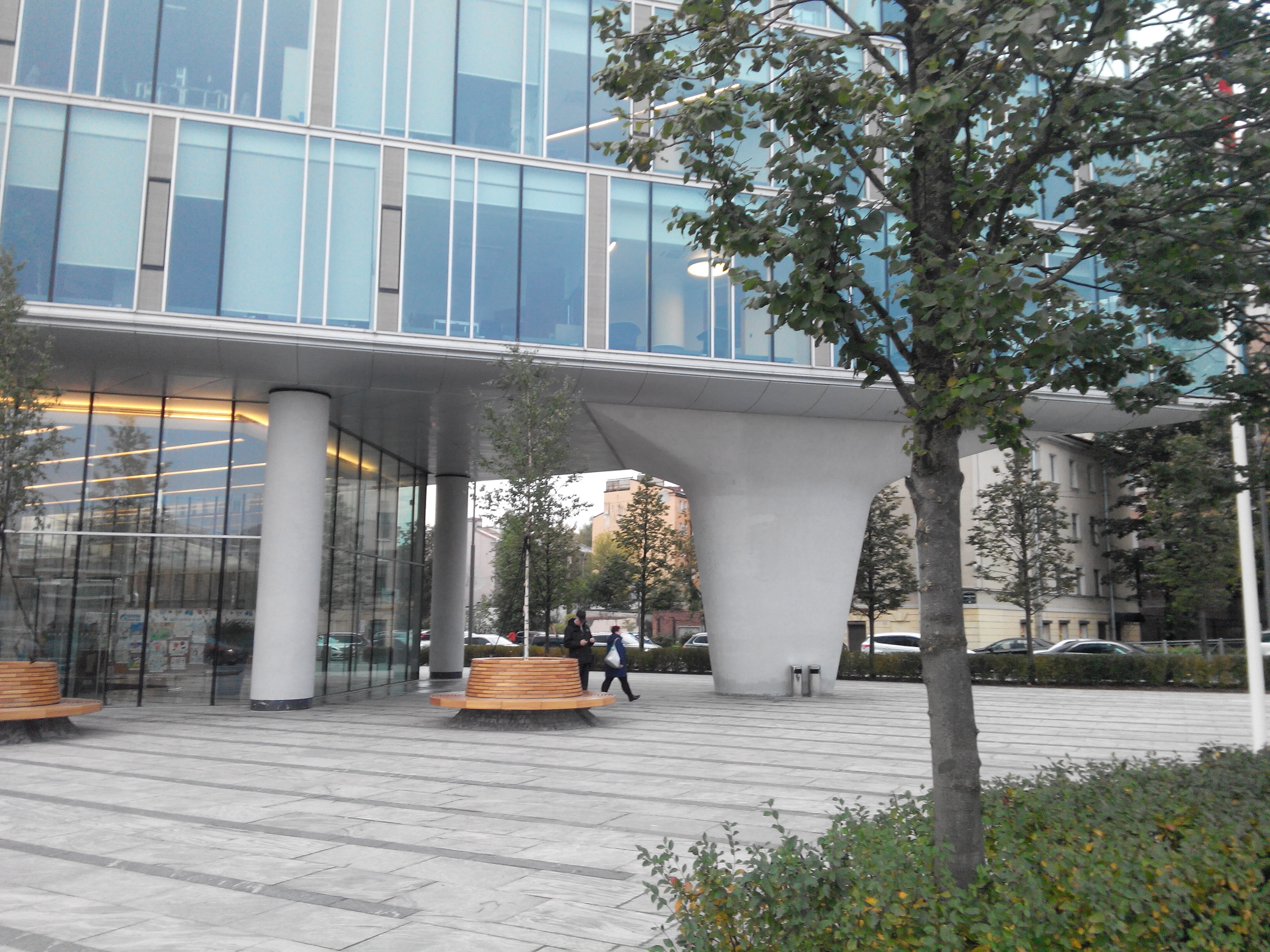 Admiral Lazarev Embankment